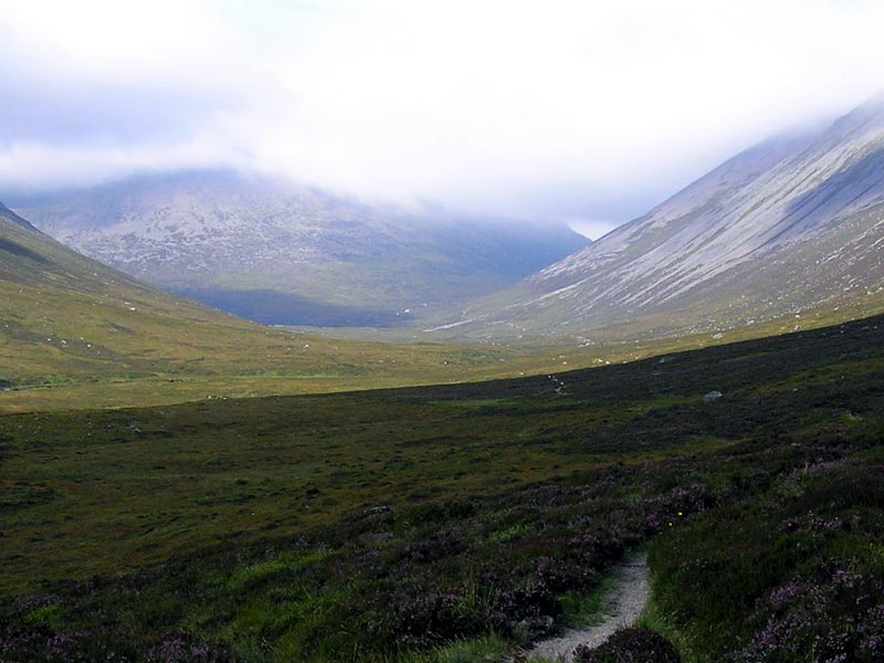 A view of upper Glen Dee, Mar Lodge Estate, Aberdeenshire, Scotland showing the hanging valley of the Lairig Ghru